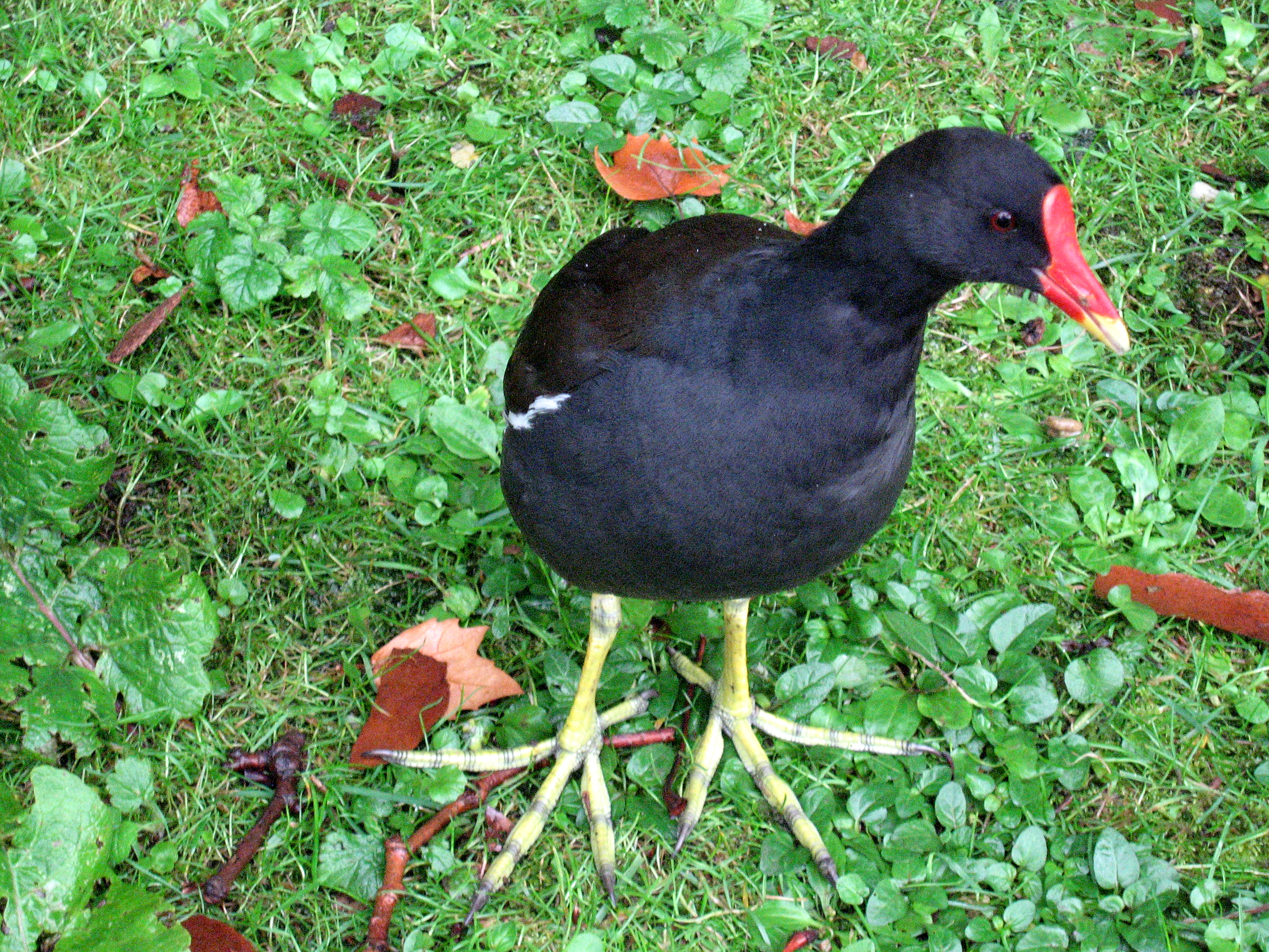 Gallinula chloropus Dortmund, Rombergpark